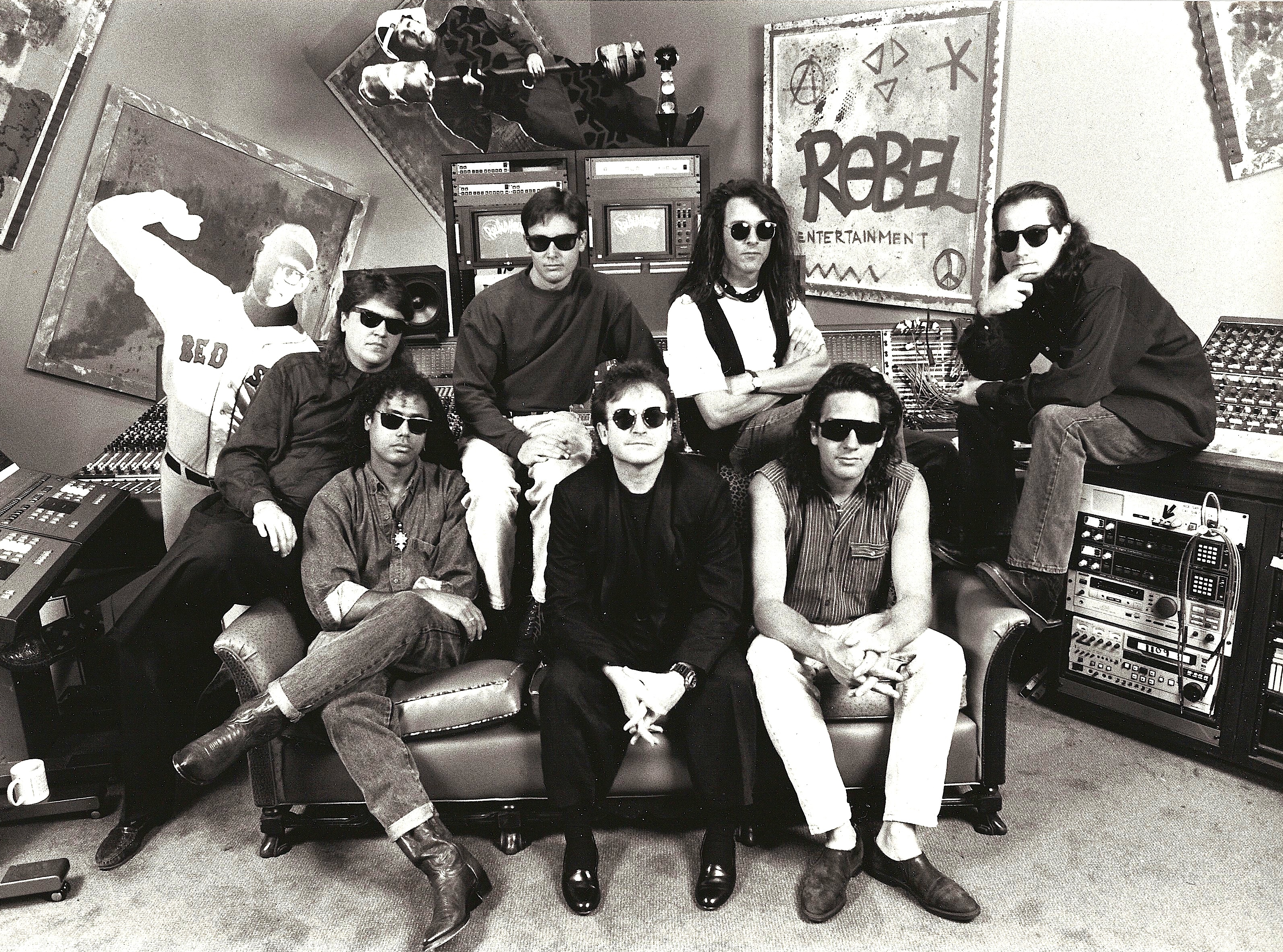 Benny Hester with Roundhouse band and recording engineers